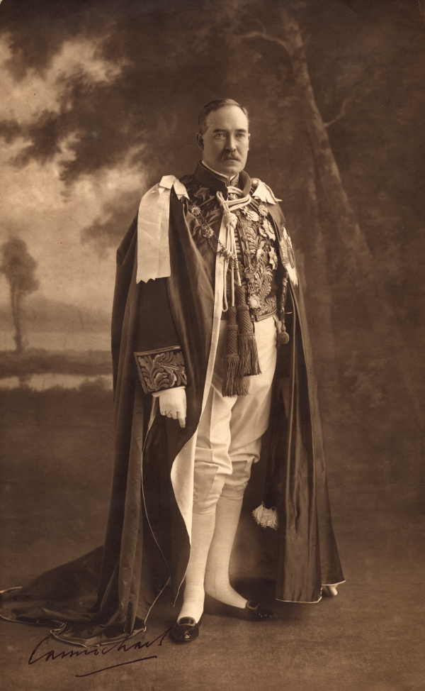 Thomas Gibson-Carmichael, 1st Baron Carmichael.